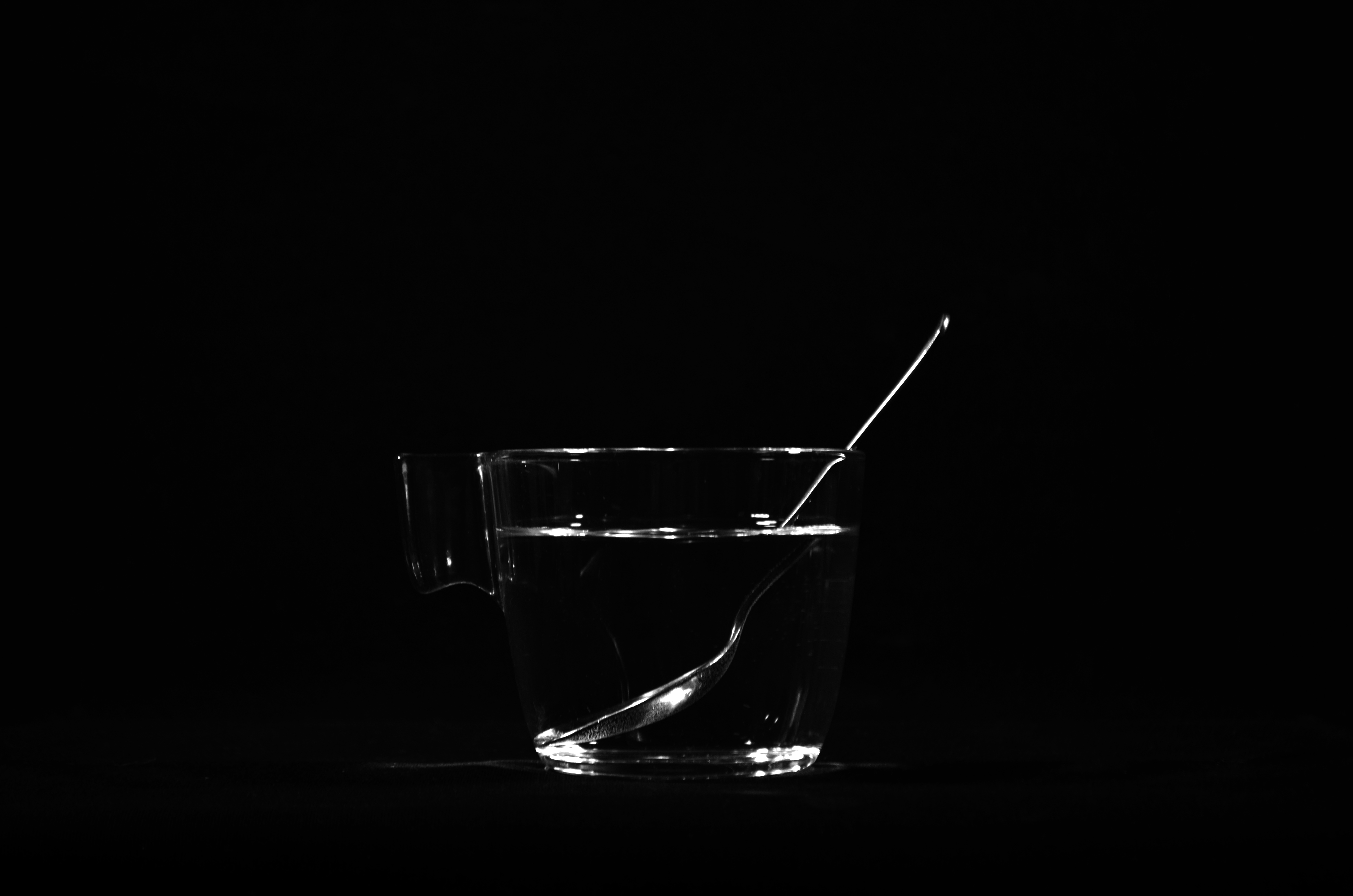 My photo is just a clear example of a refraction, a cut between physical space and photographic time.